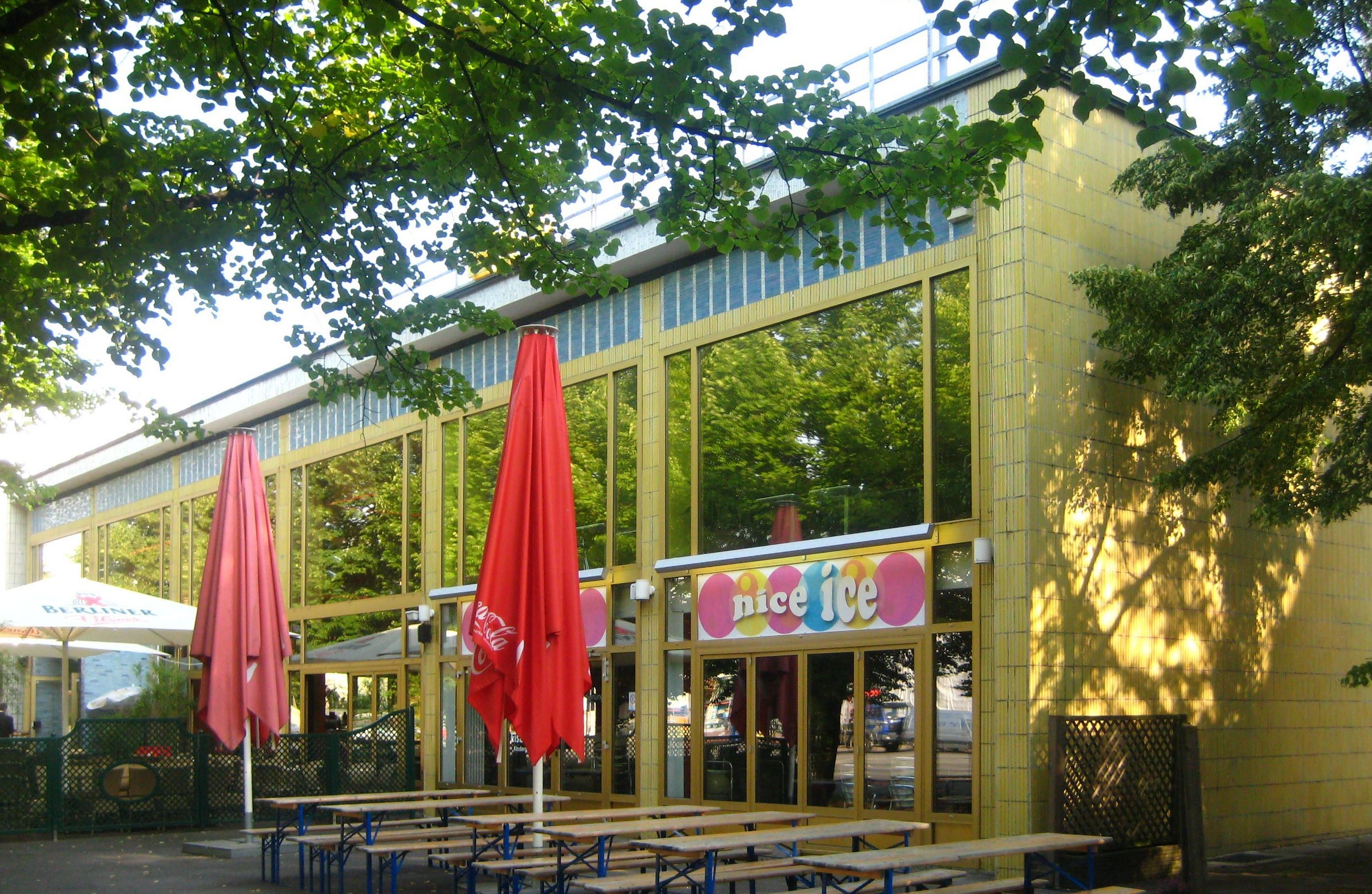 The former "Mocca-Milch-Eisbar" at Karl-Marx-Allee No. 35 in Berlin-Mitte. The pavilion was built in 1962 during construction of the western part of Karl-Marx-Allee. The design is by the architects Josef Kaiser and Walter Franek. The pavilion is part of a historic landmark also encompassing "Kino International" and "Café Moskau".